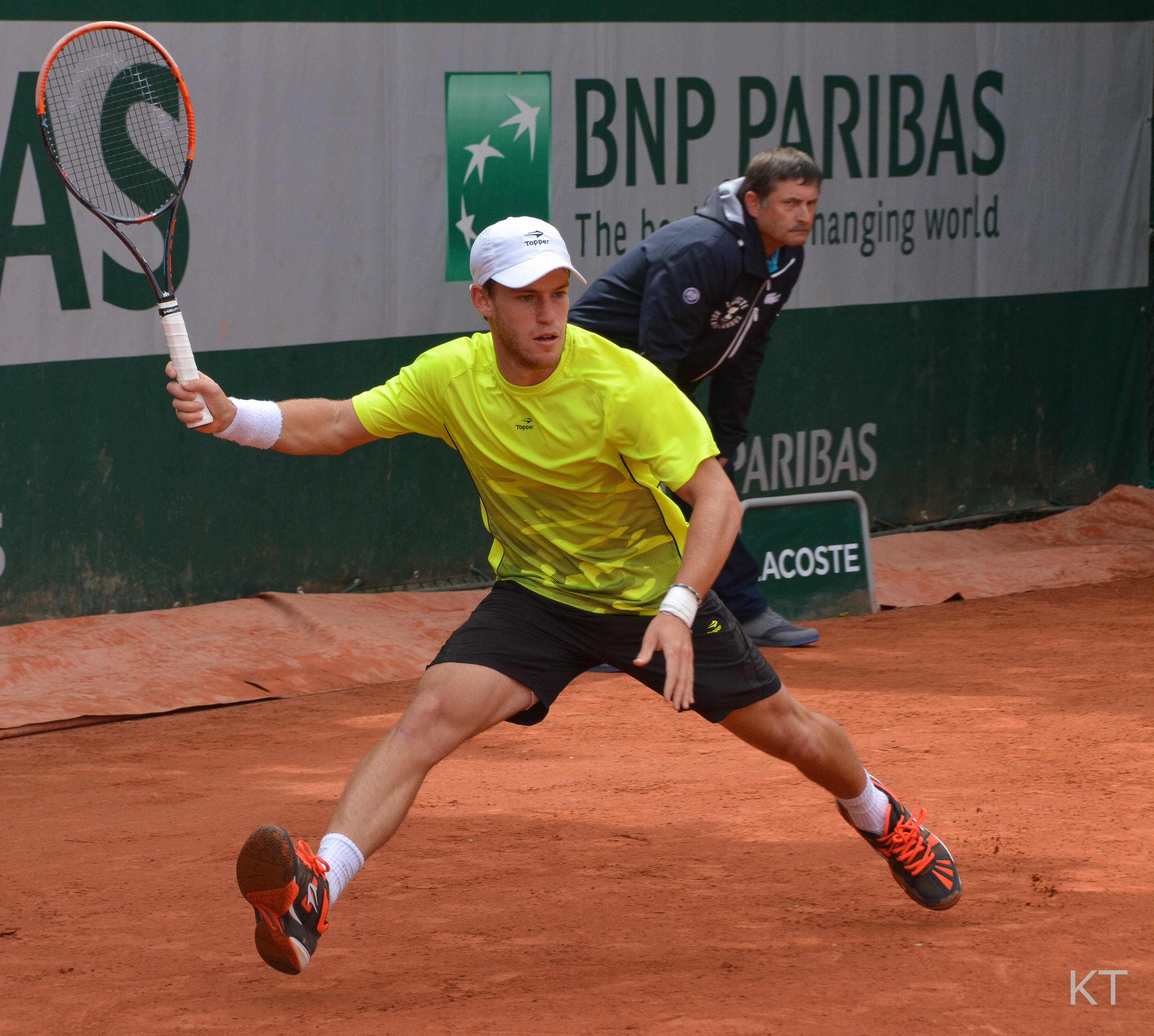 Day 2 of Roland Garros 2016.